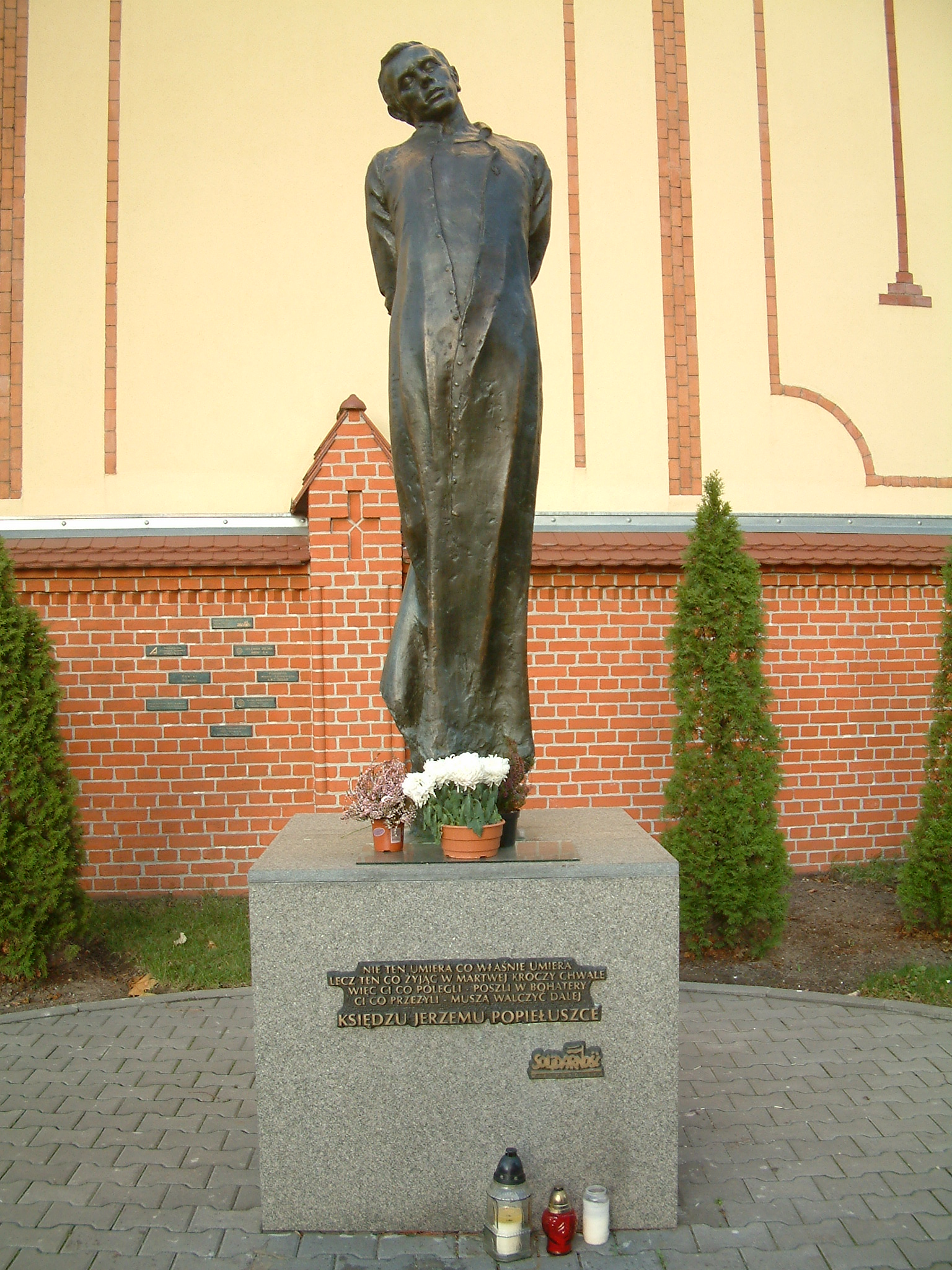 Church of Mother of Sorrow in Poznań, Symbolic grave of Jerzy Popiełuszko